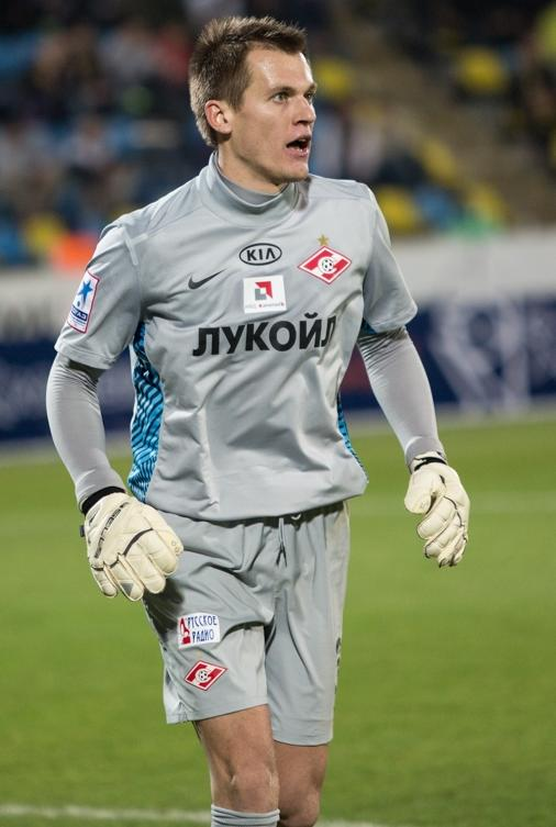 Artyom Rebrov with FC Spartak Moscow.